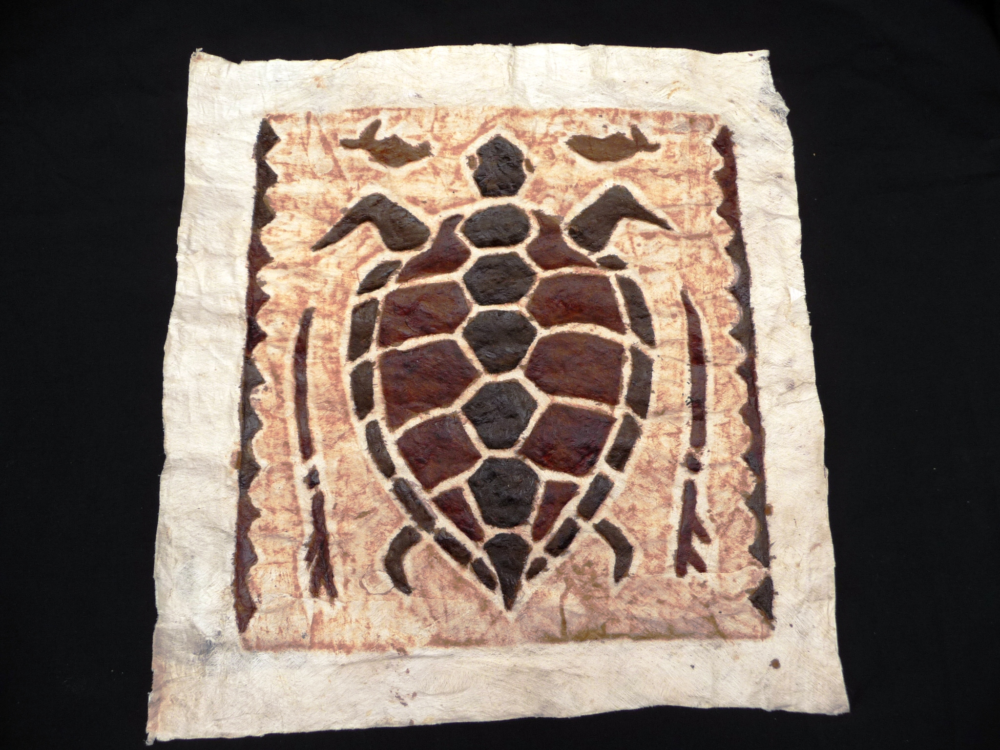 This tapa cloth is made from the inner bark of a tree. Tapa is the name used in Papua New Guinea to refer to bark cloth. Bark cloth is made throughout the Pacific region and has many different names. Object description: This tapa is from Domara Village, in Oro Province, Papua New Guinea. It is rectangular in shape and features red and black geometric designs. History: Tapa can be made from the inner bark of paper mulberry trees or breadfruit trees. The inner bark is dried, soaked and beaten, and then painted with designs and decorations. Sometimes, special glue made from tapioca or sweet potato starch is used to make bigger pieces of cloth. Tapa cloths are used for special ceremonies and are given as gifts and/or worn at weddings and other events like graduations. Oro Province in Papua New Guinea is famous for its tapa and the women often wear ones like this while singing and dancing at traditional ‘singsings’. (A singsing is a special gathering where people perform traditional dances and songs.)